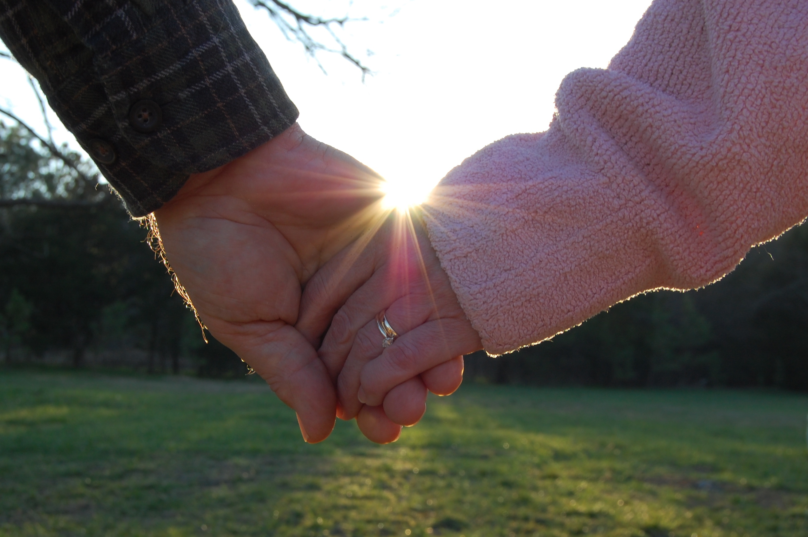 Marriage and hands being held, happy, forgiveness, unity, together, forever.